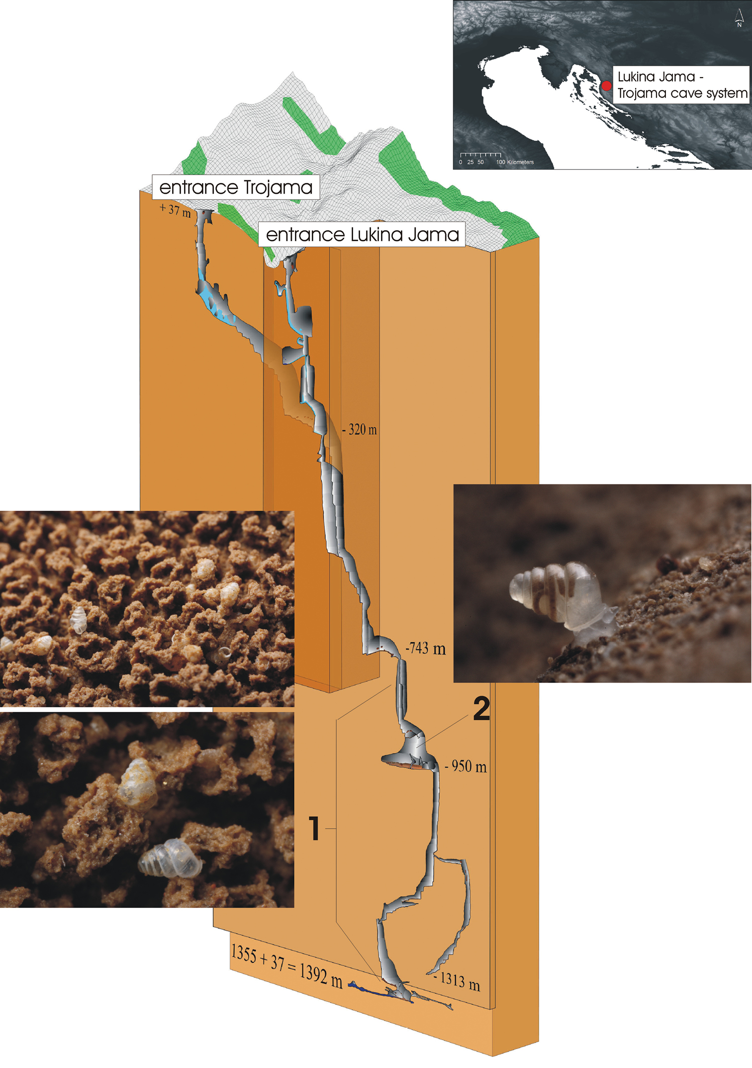 The Lukina Jama–Trojama cave system. Overview of the geographical position and 3D cave cross-section. In the latter, the region of collected shells (1) and the collection site of the living specimen of Zospeum tholussum (2) are indicated. The 3D cross-section was provided by D. Bakšić et al. (2010), Croatian Speleological Server, . Photos were taken by J. Bedek.